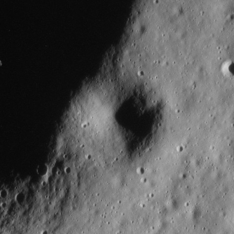 Elbow crater, Hadley–Apennine region, on the moon. Sun elevation 14 deg., spacecraft altitude 101 km.